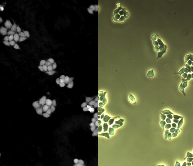 Comparison of digital holographic microscopy (DHM) phase shift (left) and a phase contrast microscopy (right). The cell images were recorded using the HoloMonitor M3 from Phase Holographic Imaging.